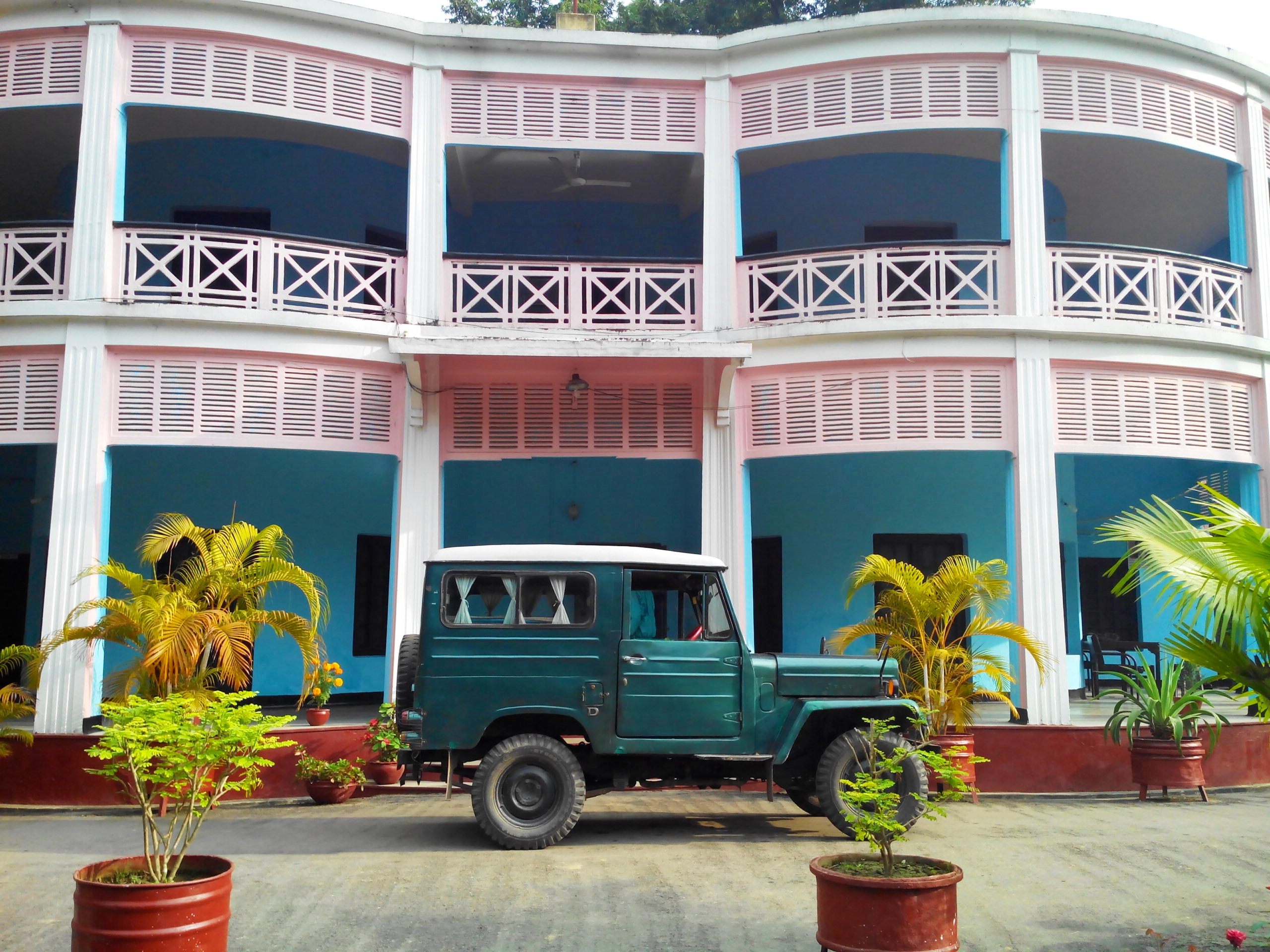 Carew & Company Bangladesh Limited